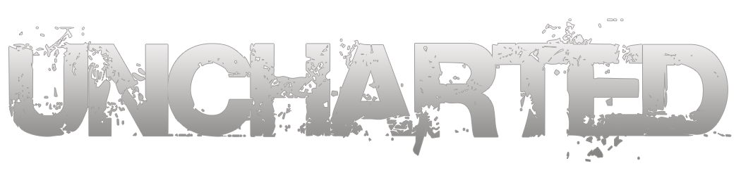 Main series logo